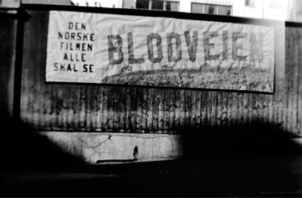 Advertisement for the norwegian movie "Blodveien".